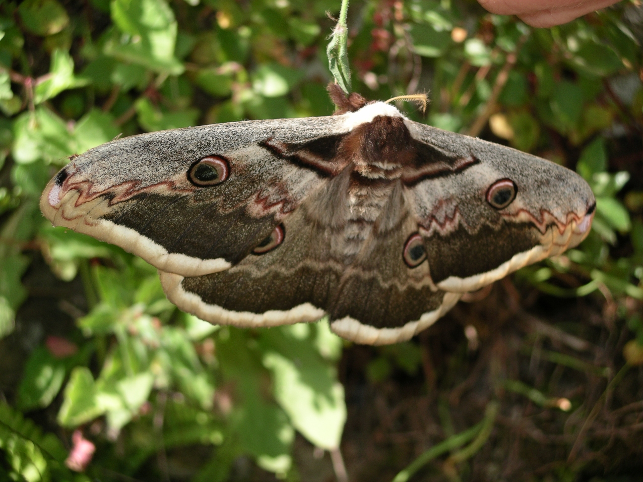 Great Peacock moth in Tuscany - May 2005